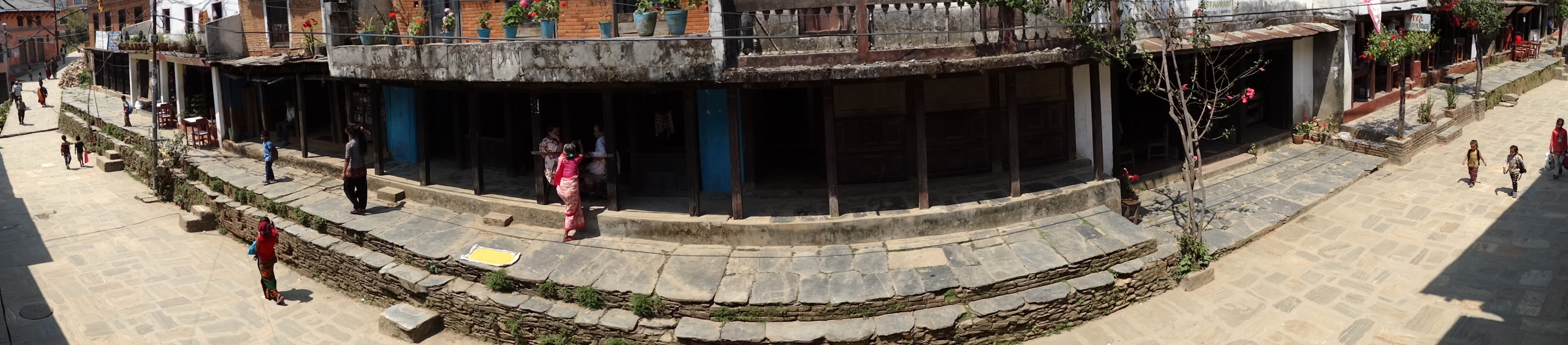 Main Street Panorama from Balcony of Newa Guest House - Bandipur - Nepal